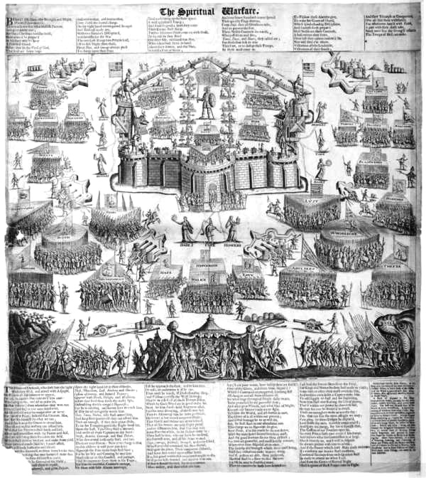 The Spiritual Warfare, print by Martin Droeshout depicting the army of the devil besieging a castle held by a Christian warrior, defended by the Christian virtues. The design is speculated to have influenced John Bunyan's allegories in The Holy War and Pilgrim's Progress.